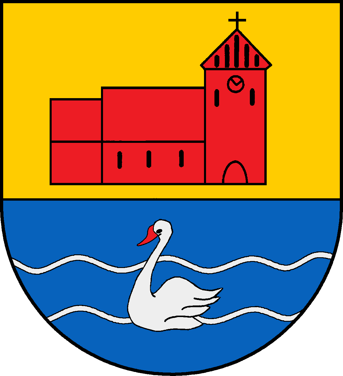 Coat of arms of the municipality Karby in Schleswig-Holstein, Germany.